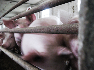 Sows